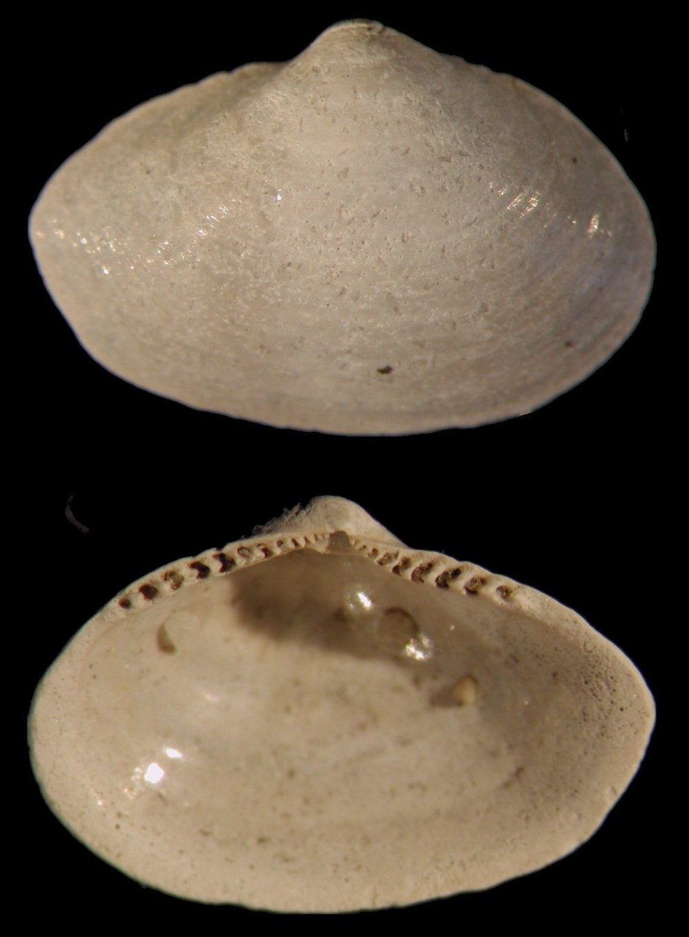 Portlandia arctica (Gray, 1824): Right valve, outside and inside view. Fossil specimen from a deep borehole in the Netherlands. Maassluis Formation, Age: Early Pleistocene (Tiglian/Pretiglian)